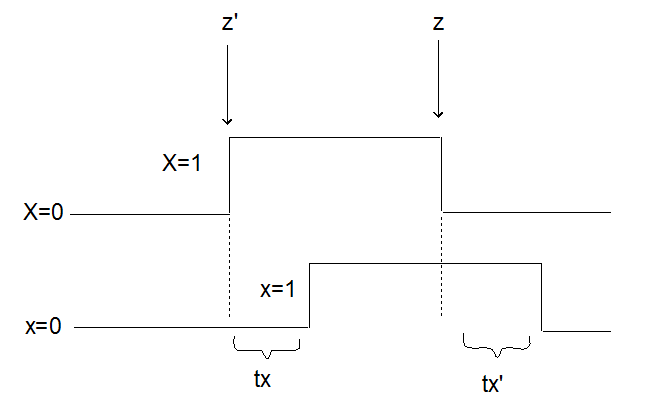 The time delays tx and tx’ are not same as tx depends principally on the rate of synthesis of x, whereas tx’ depends to a large extent on the stability of x. (Thomas and D’Ari, 1990).